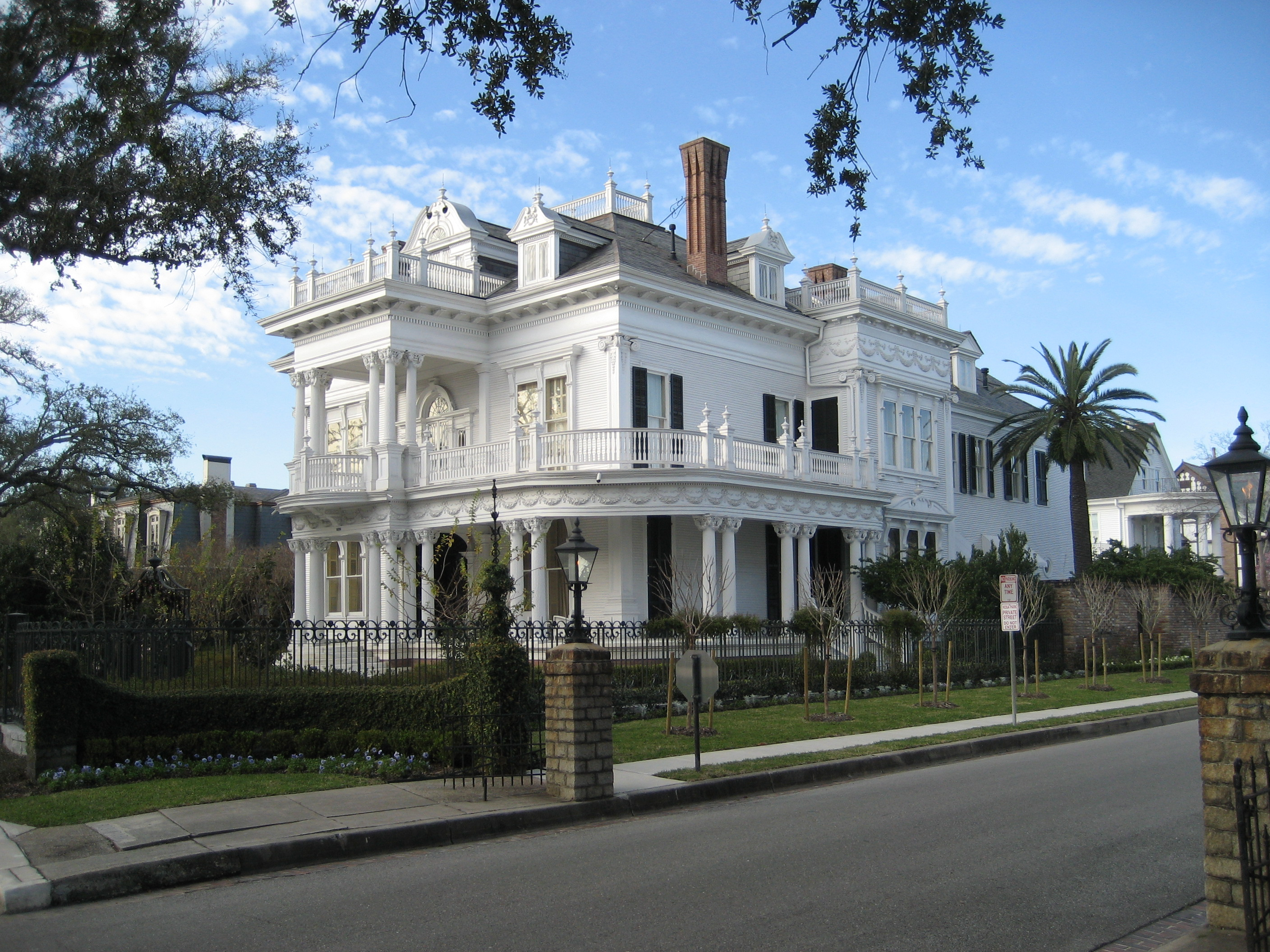 Elegant old houses on St. Charles Avenue, New Orleans